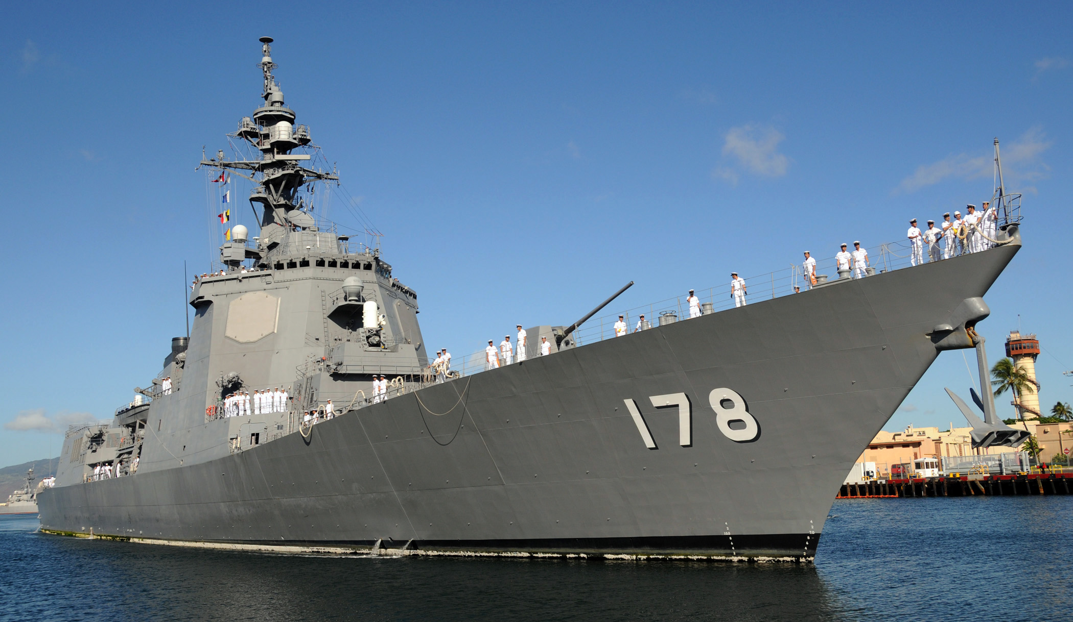 081103-N-9758L-057 0PEARL HARBOR (Nov. 3, 2008) The Japan Maritime Self Defense Force guided-missile destroyer JS Ashigara, DDG-178, makes her way pierside at Naval Station Pearl Harbor.